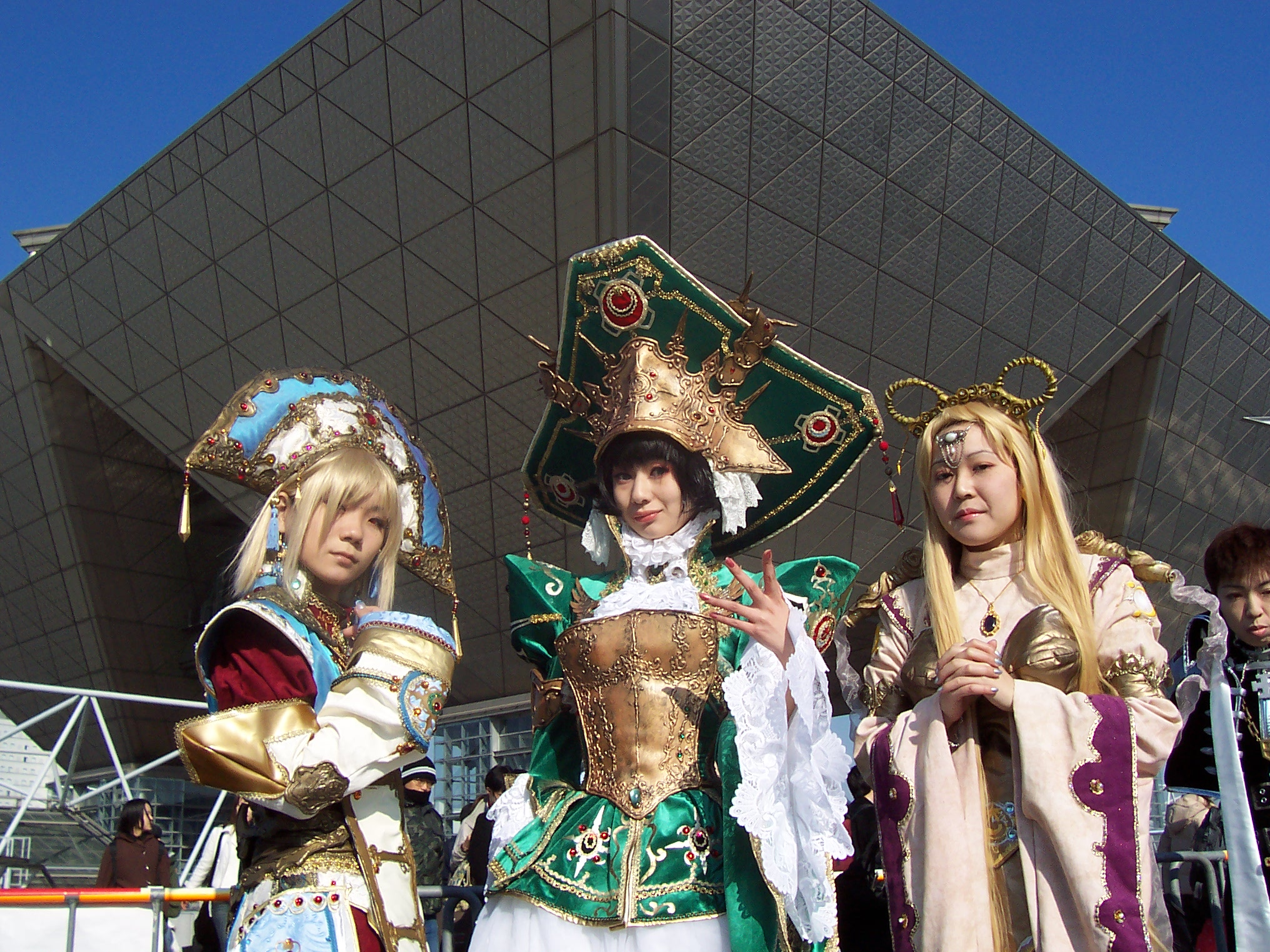 Elaborately dressed cosplayers at Comic Market 69.